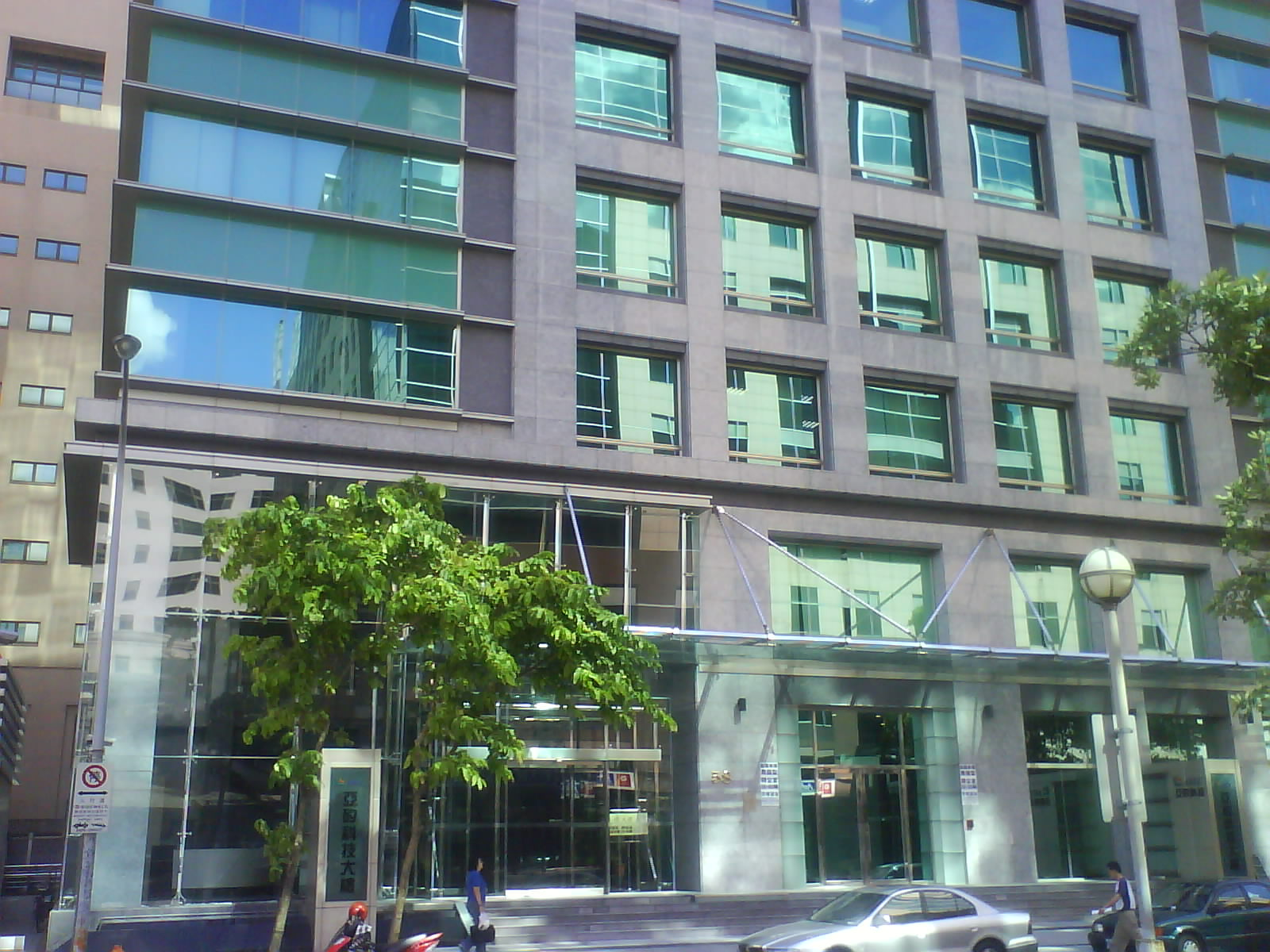 Cambridge Semiconductor office in Neihu district, Taipei, Taiwan